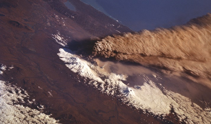 The volcano Klyuchevskaya Sopka in northern Kamchatka during his eruption in October 1994